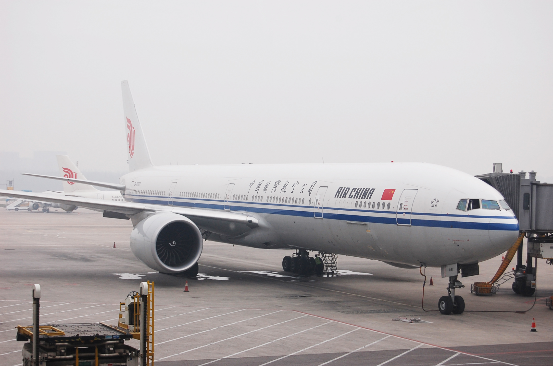 Air China Boeing 777-300ER at Beijing Airport